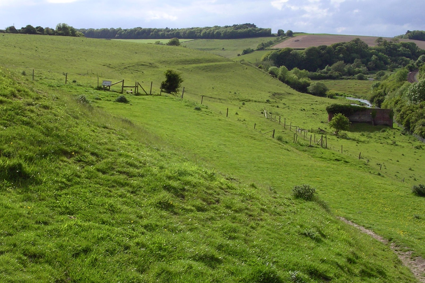 View northwest from the northwest corner of Poundbury hillfort near Dorchester. The terrace on the hillside marks the course of the Roman aqueduct that once supplied Durnovaria (Dorchester) with fresh water from a chalk valley further up the Frome valley.